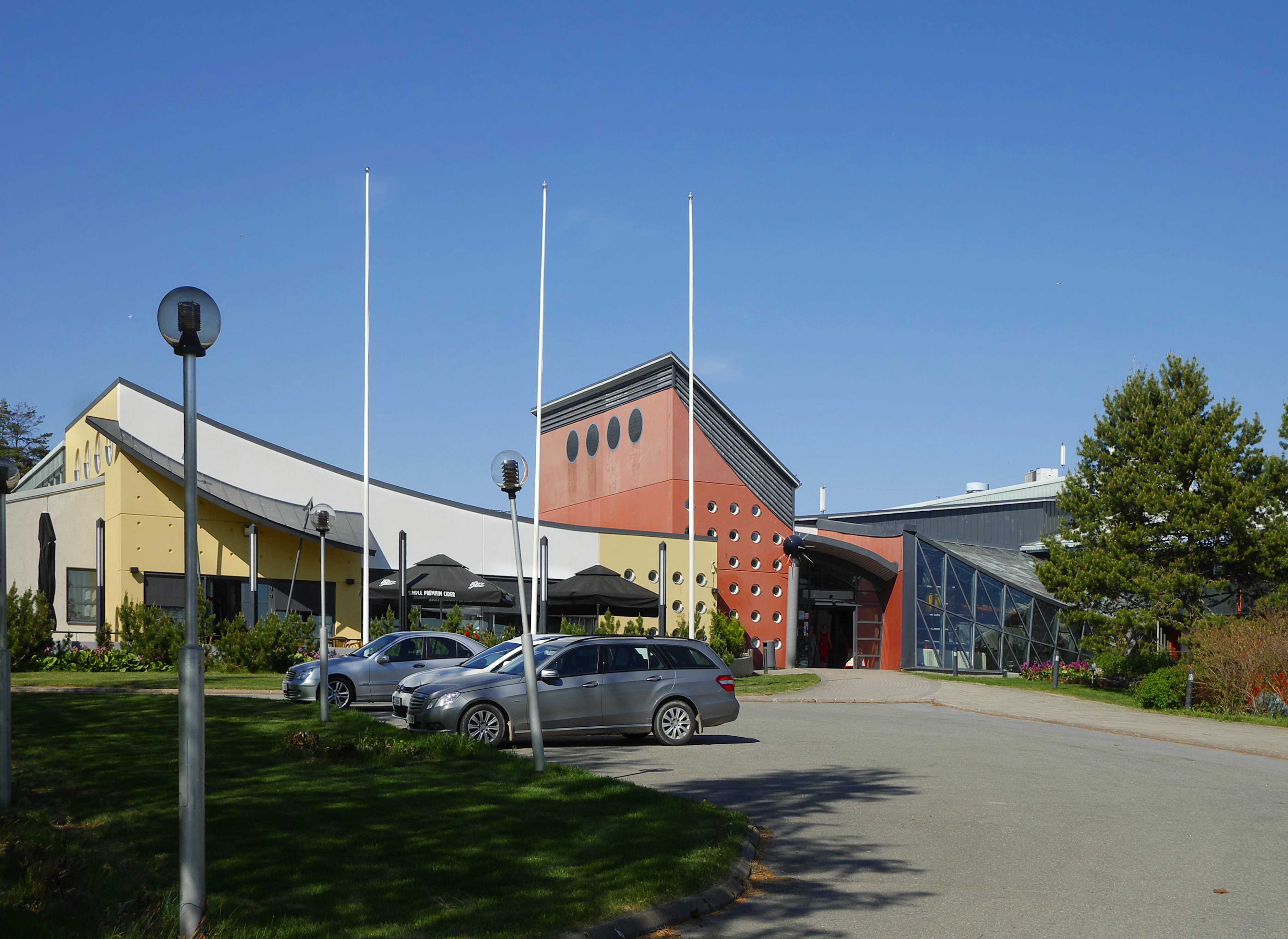 Hotel Kivitippu in Lappajärvi, Finland.